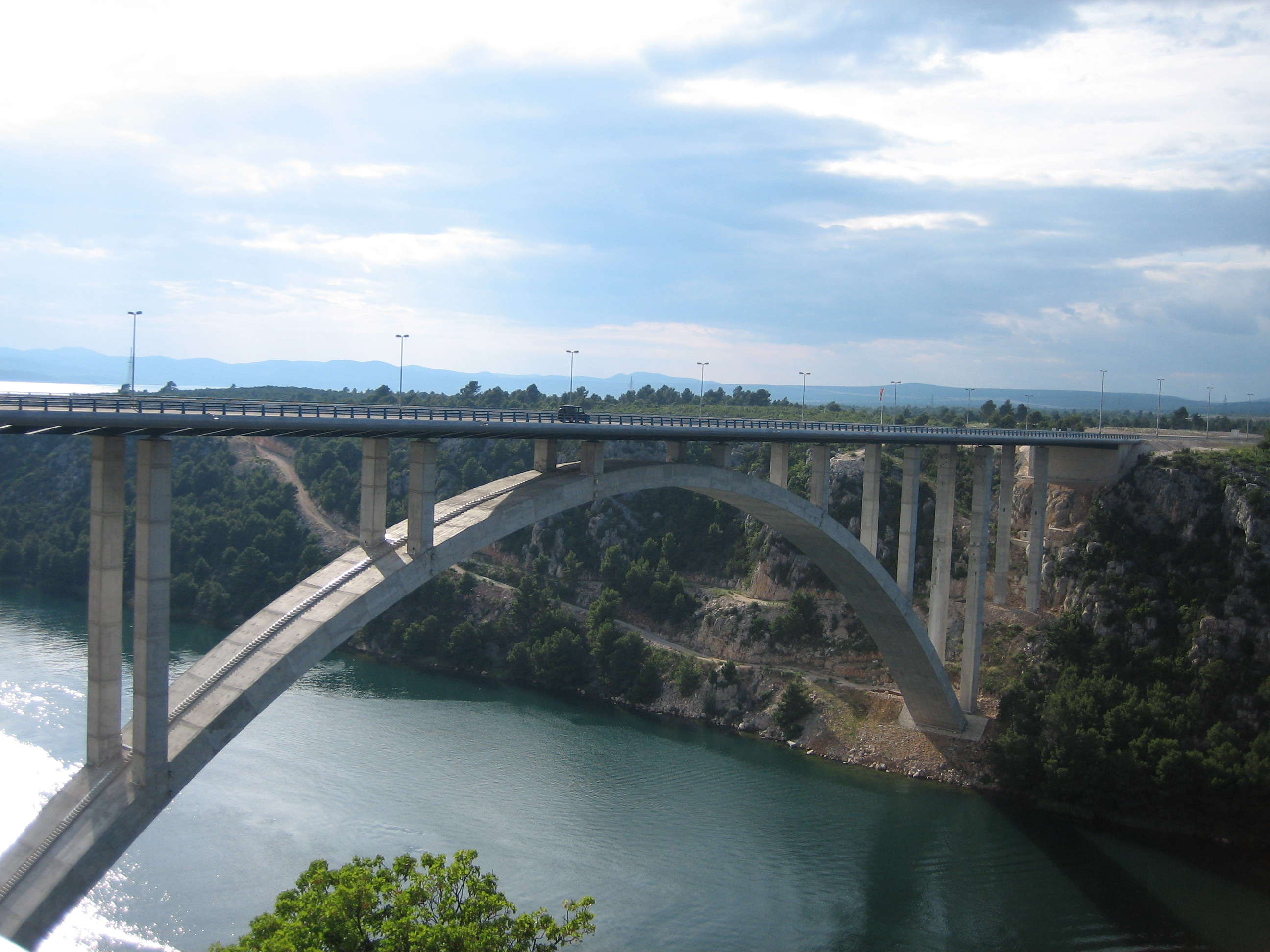 Skradin bridge